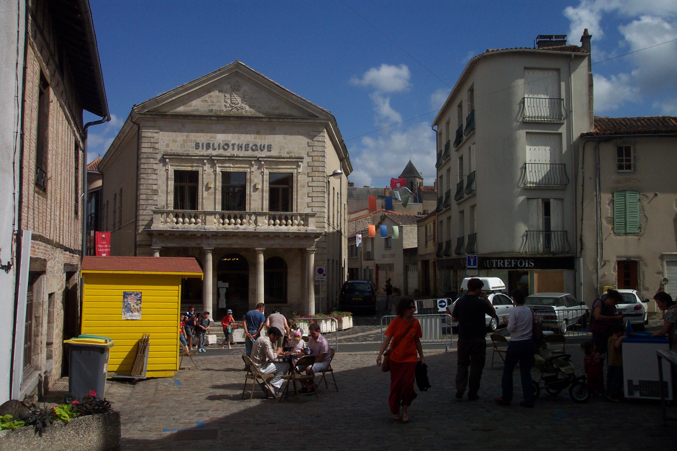 Outside the gate of the Citadelle during the Festival Ludique International de Parthenay of 2010 in the French town of Parthenay. For more information, see the Wikipedia articles Parthenay and Festival Ludique International de Parthenay.